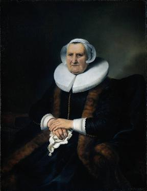 Elisabeth Bas